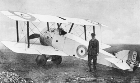 Captain G F Malley of No 4 Squadron, Australian Flying Corps (AFC) at No 5 (Training) Squadron, AFC standing next to an all white Sopwith Camel F.1 aircraft, serial no E7259.